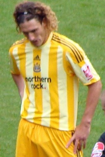 13/09/09 Cardiff V Newcastle, Cardiff City Stadium, Cardiff, Wales